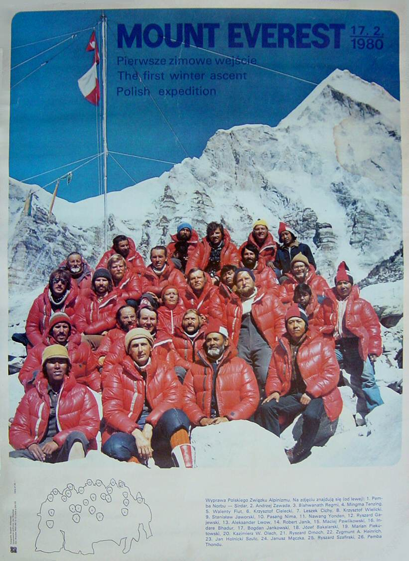 Members of expedition of first winter assent of Mount Everest of 1980.